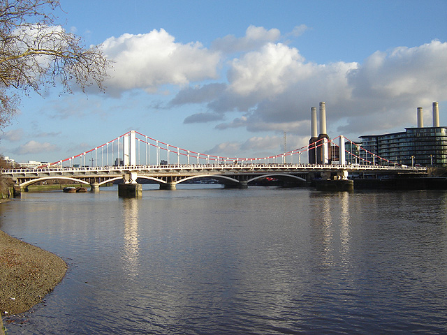 Chelsea Bridge, River Thames, London, looking downstream from the north bank. Grosvenor Bridge and Battersea power station in background. 21 January 2006. Photographer: Fin Fahey.